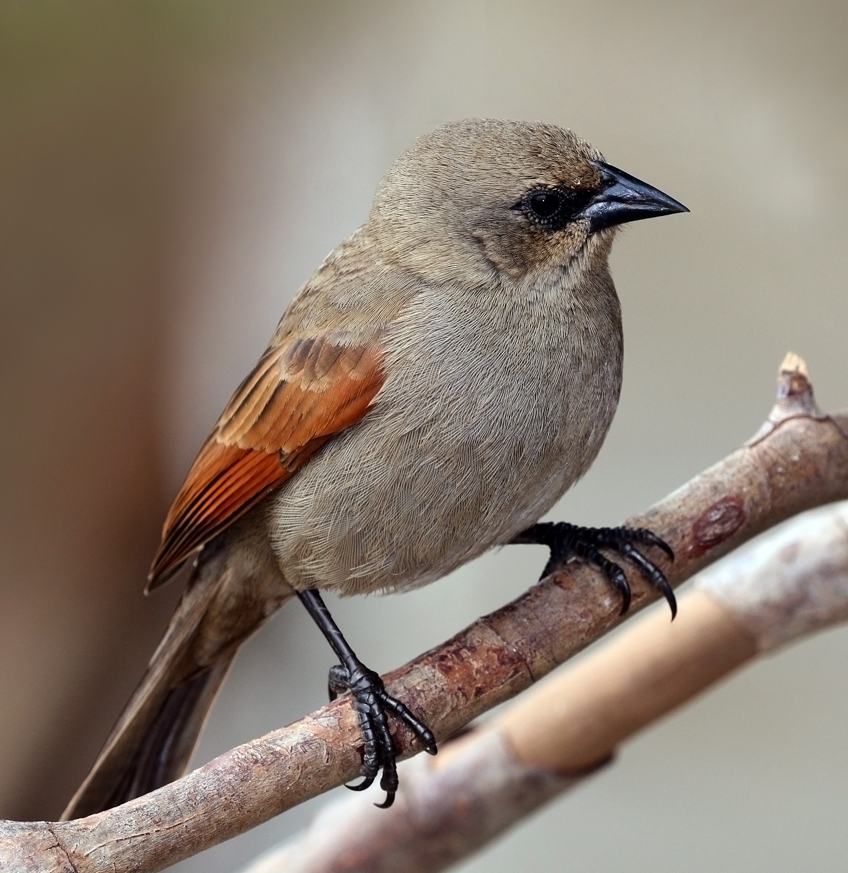 Baywing (Agelaioides badius) male, the Pantanal, Mato Grosso, Brazil